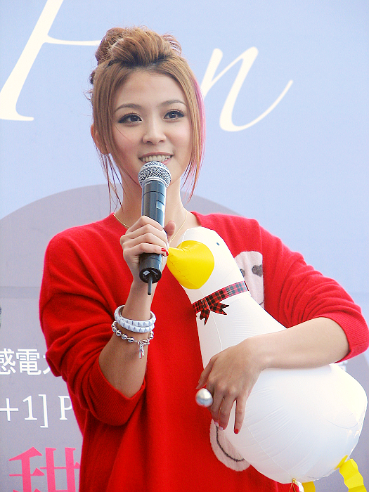 Genie Chuo at an autograph-signing event on 9 January 2010